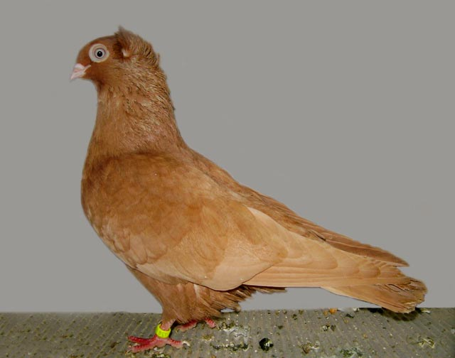 Szegediner Highflier (yellow self). In Europe this Breed (a German developed Breed from 1930, when the Region of Szegedin was German populated) it has been renamed 'Südbatchkaer Tumbler' The name 'Szegediner' being reserved for the 'Original' Hungarian Breed. this is in conjunction with Hungary & Germany & the EE Ruling on Breeds registration(Covering 26 different European Countries).